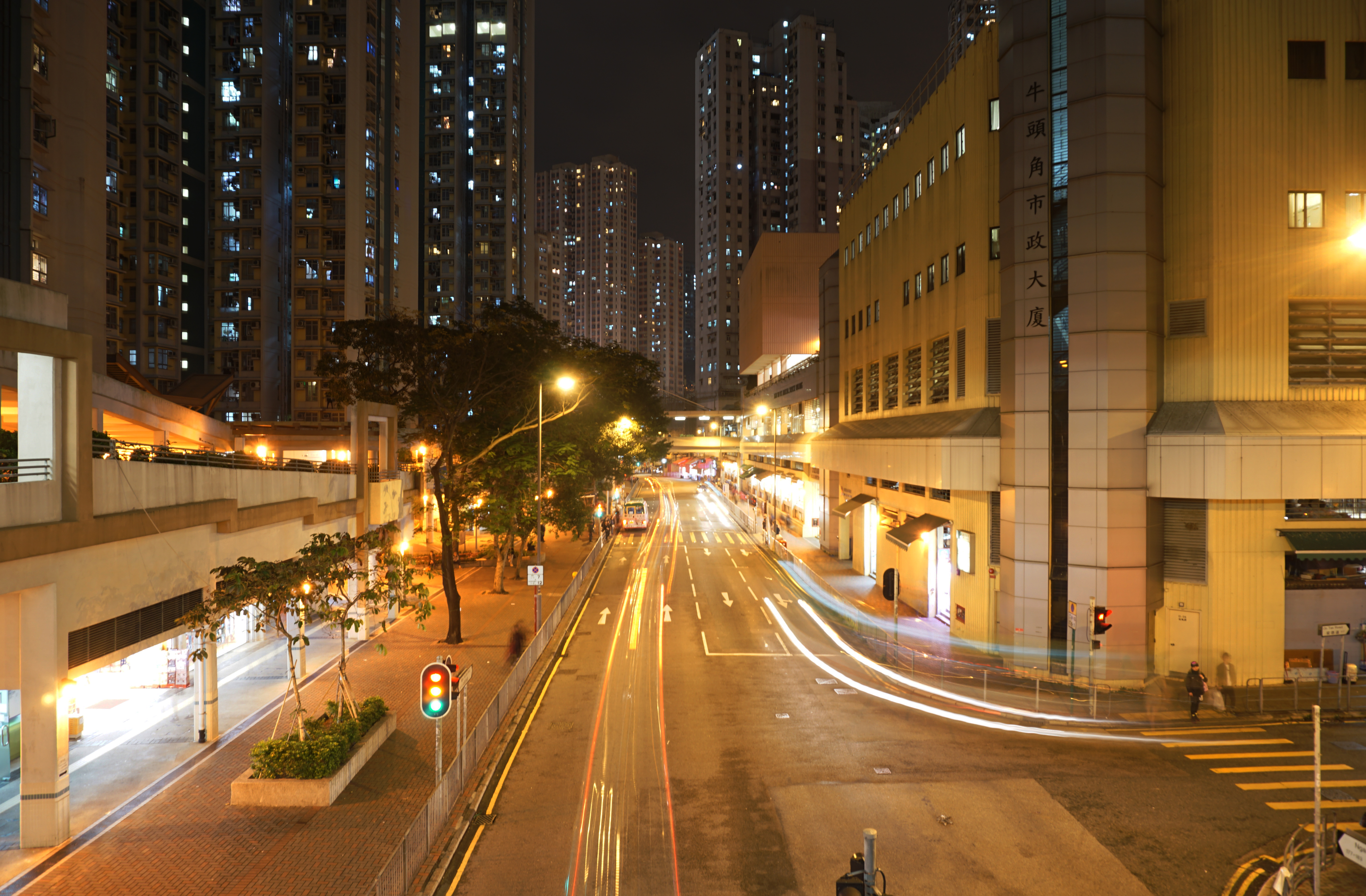 Ngau Tau Kok Road in Kowloon Bay, Hong Kong.